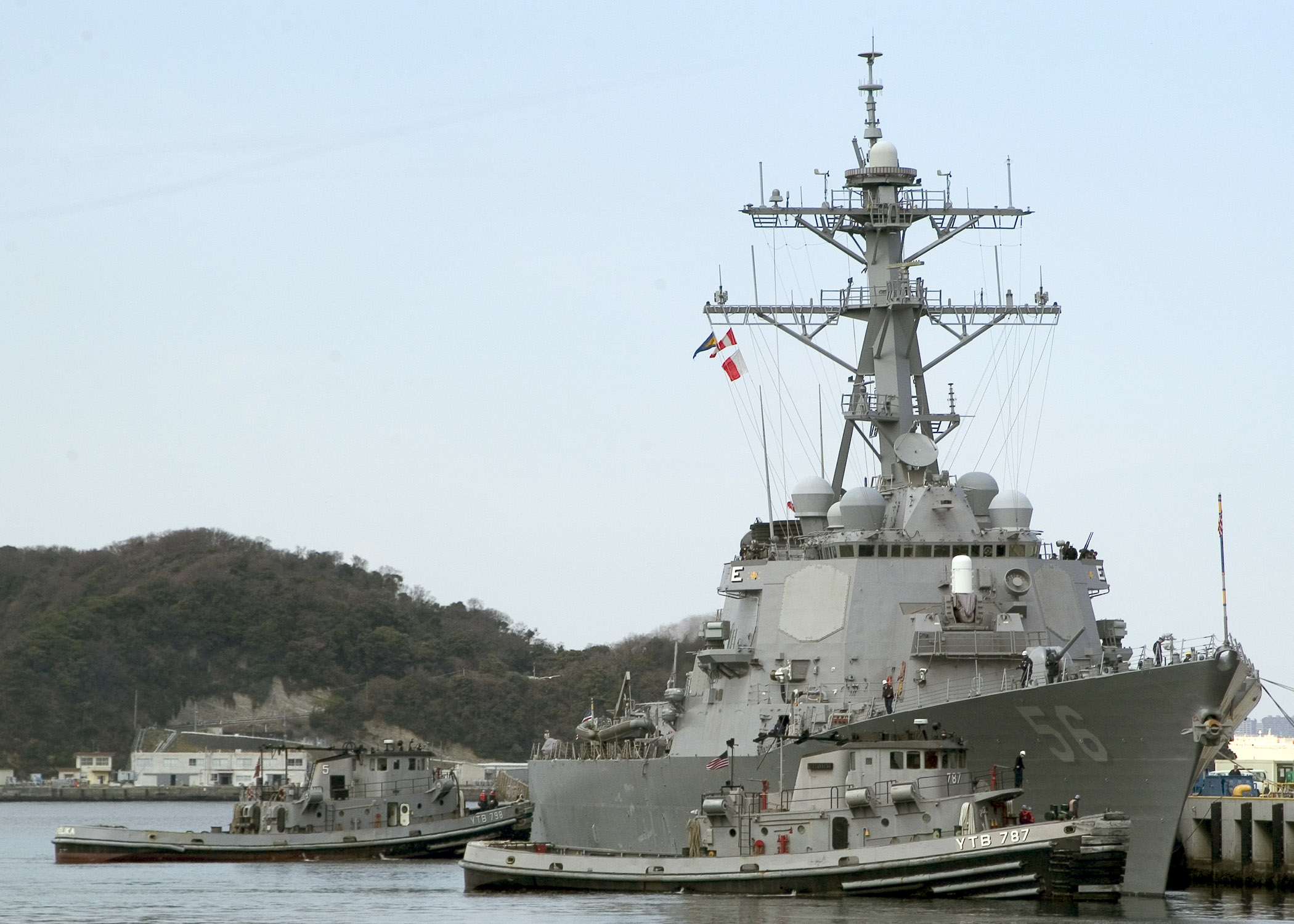 YOKOSUKA, Japan (March 19, 2007) - Large harbor tugs assist Arleigh Burke-class guided missile destroyer USS John S. McCain (DDG 56) as she departs Commander Fleet Activities Yokosuka. U.S. Navy photo by Mass Communication Specialist Seaman Kari R. Bergman (RELEASED)